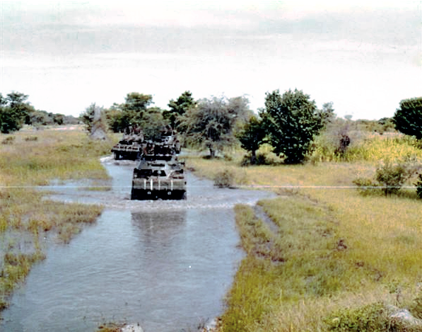 Eland armoured cars of Regiment Windhoek at Etale, 1978.